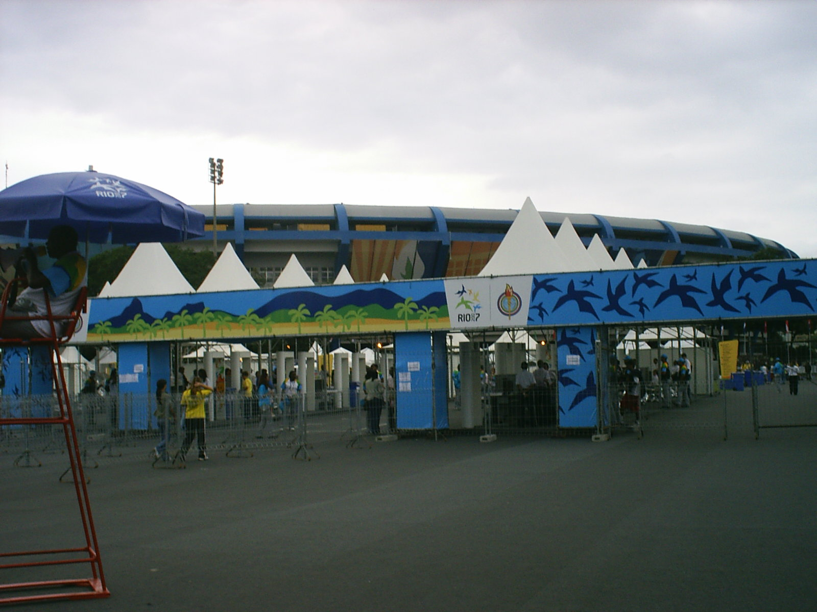 Purpose-built entrance to the Maracanã Stadium for the 2007 Pan American Games